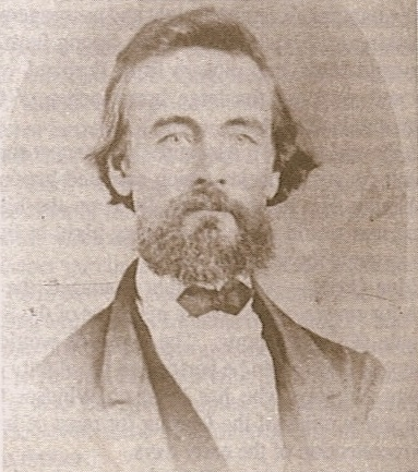 Image of Thomas D. Keizur, an early Oregon pioneer and legislator; Keizur died in 1871 so the image was taken at least 147 years ago